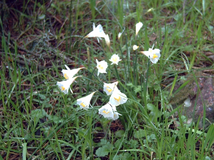 Narcissus cantabricus DC. An own work release by [Javier martin] donated to Wikipedia. A picture gathered in Pinos de la térmica, Puertollano, Ciudad Real Spain 28, January 2006 . Flowers of Narcissus romieuxii subsp. zaianicus.